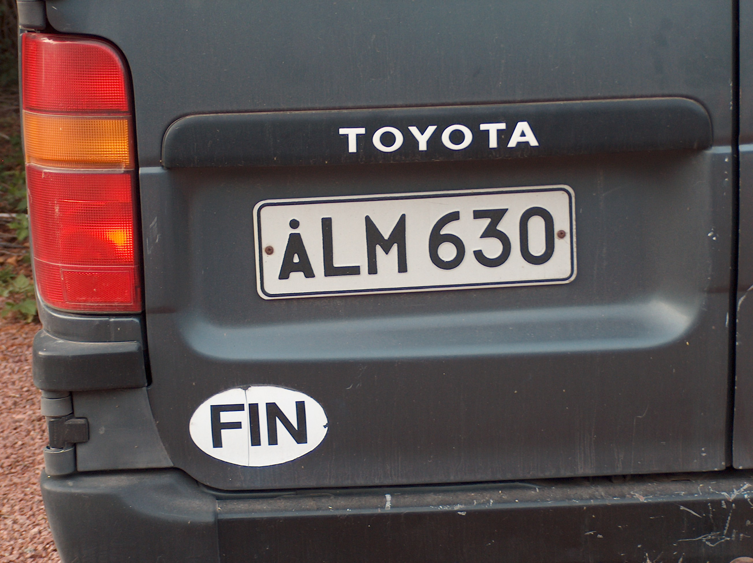 older license plate of Åland Islands